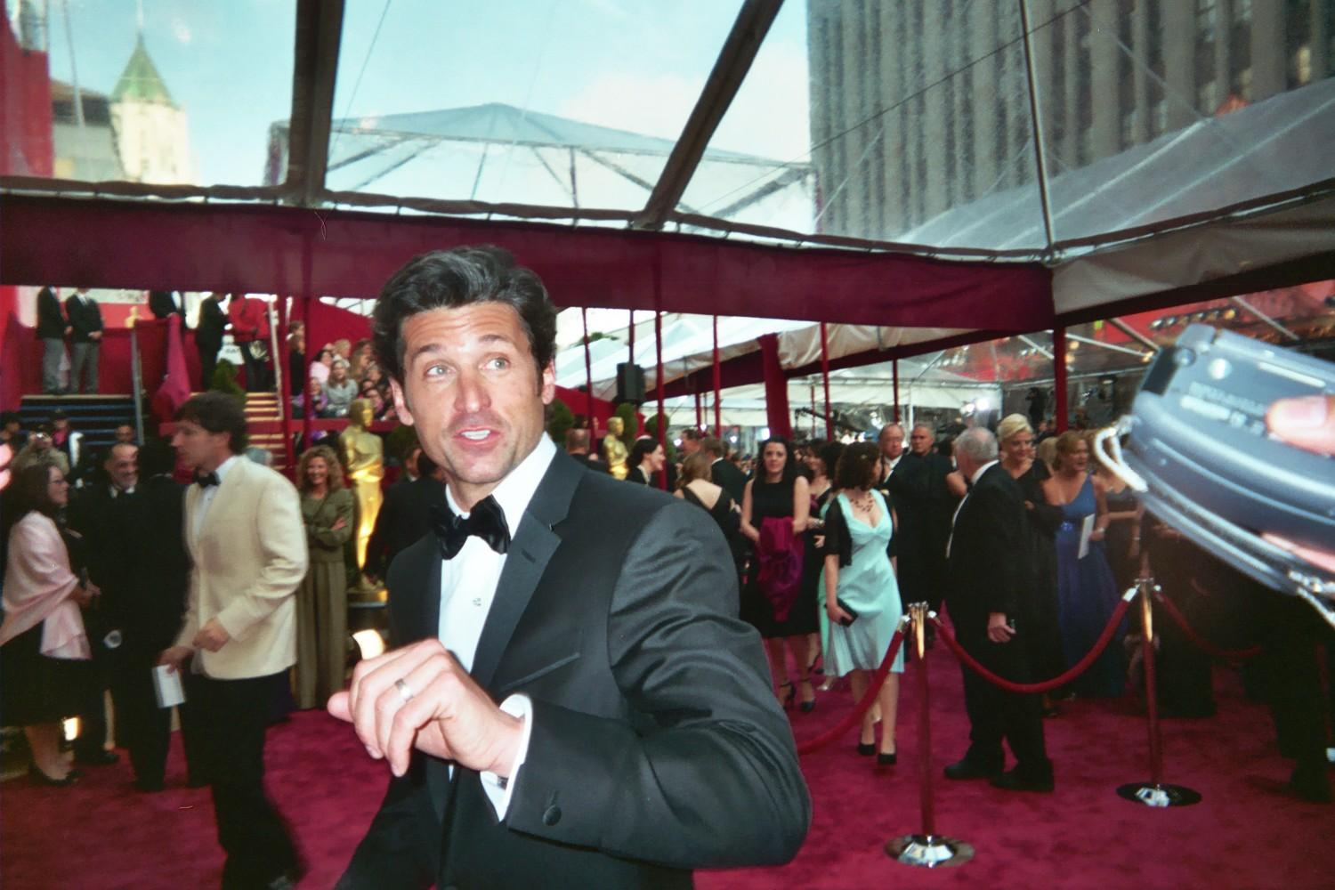 Actor Patrick Dempsey (star "Grey's Anatomy") at 80th Academy Awards.